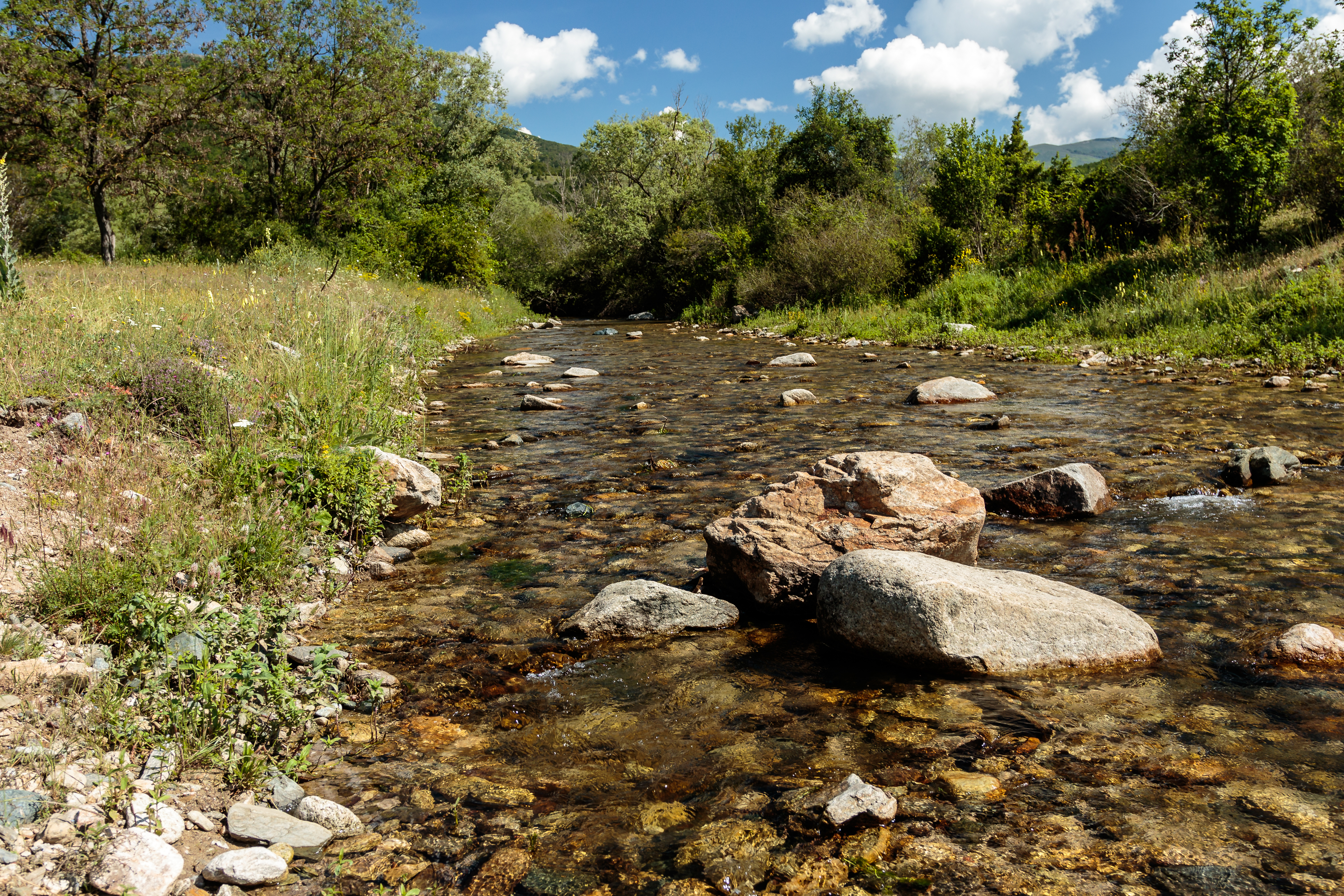 View of Žaba River in Macedonia